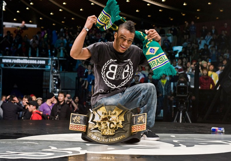 B-boy Neguin celebrating his victory at Red Bull BC One Japan 2010